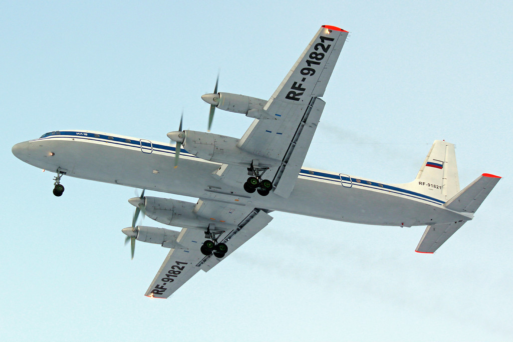 Russian Air Force Ilyushin Il-18V at Perm Bolshoye Savino Airport. This aircraft crashed 27 kilometers away from Tiksi town on 19 December 2016.